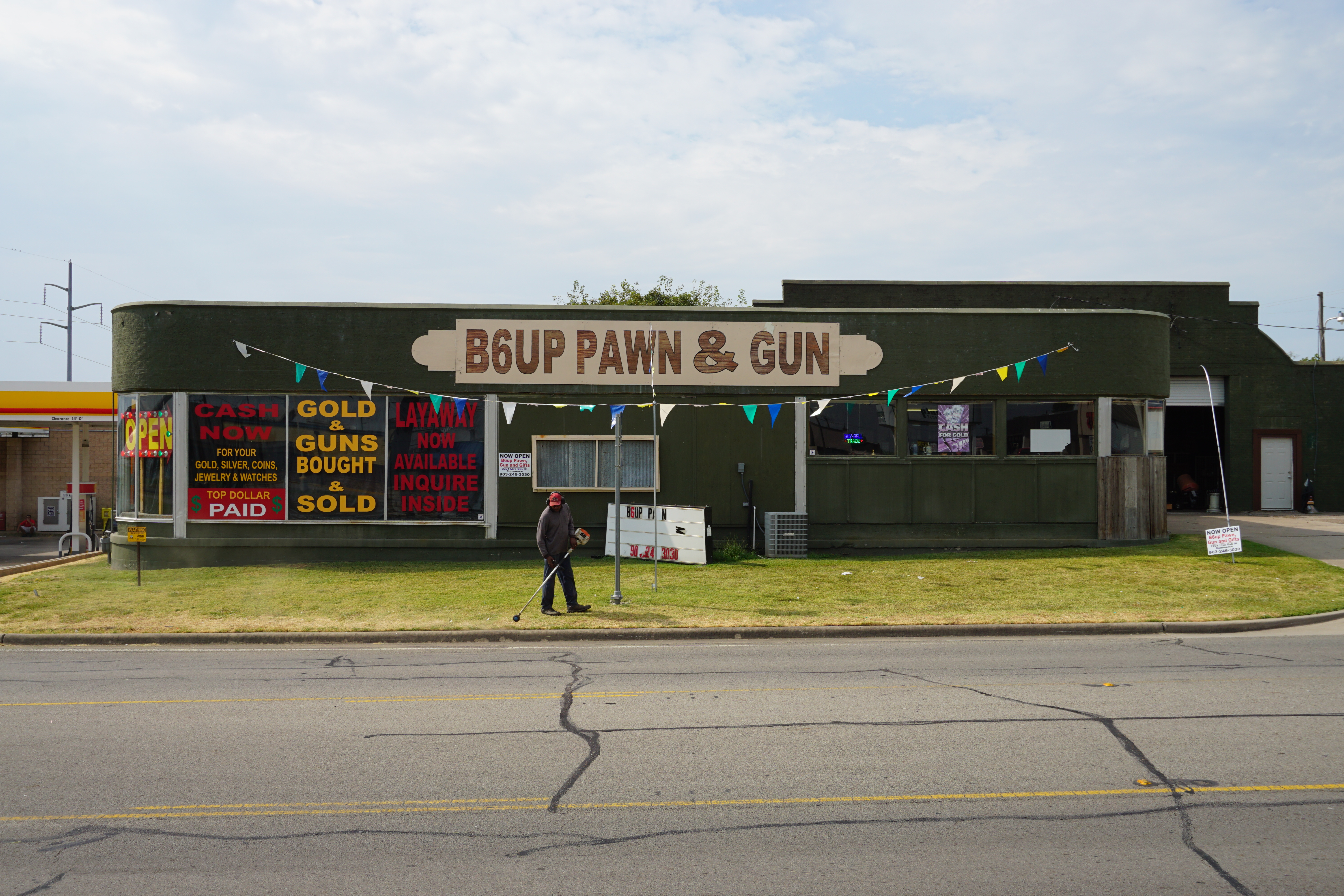 B6UP Pawn & Gun in Commerce, Texas (United States).